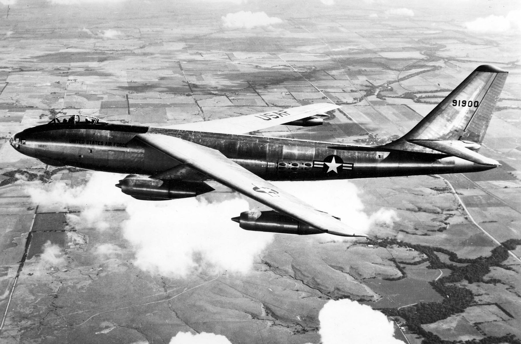 Boeing B-47A